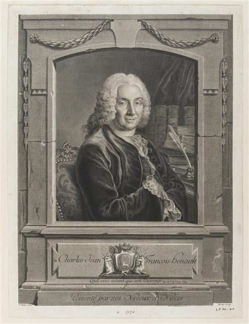 Charles-Jean-François Hénault (1685-1770), french writer and historian